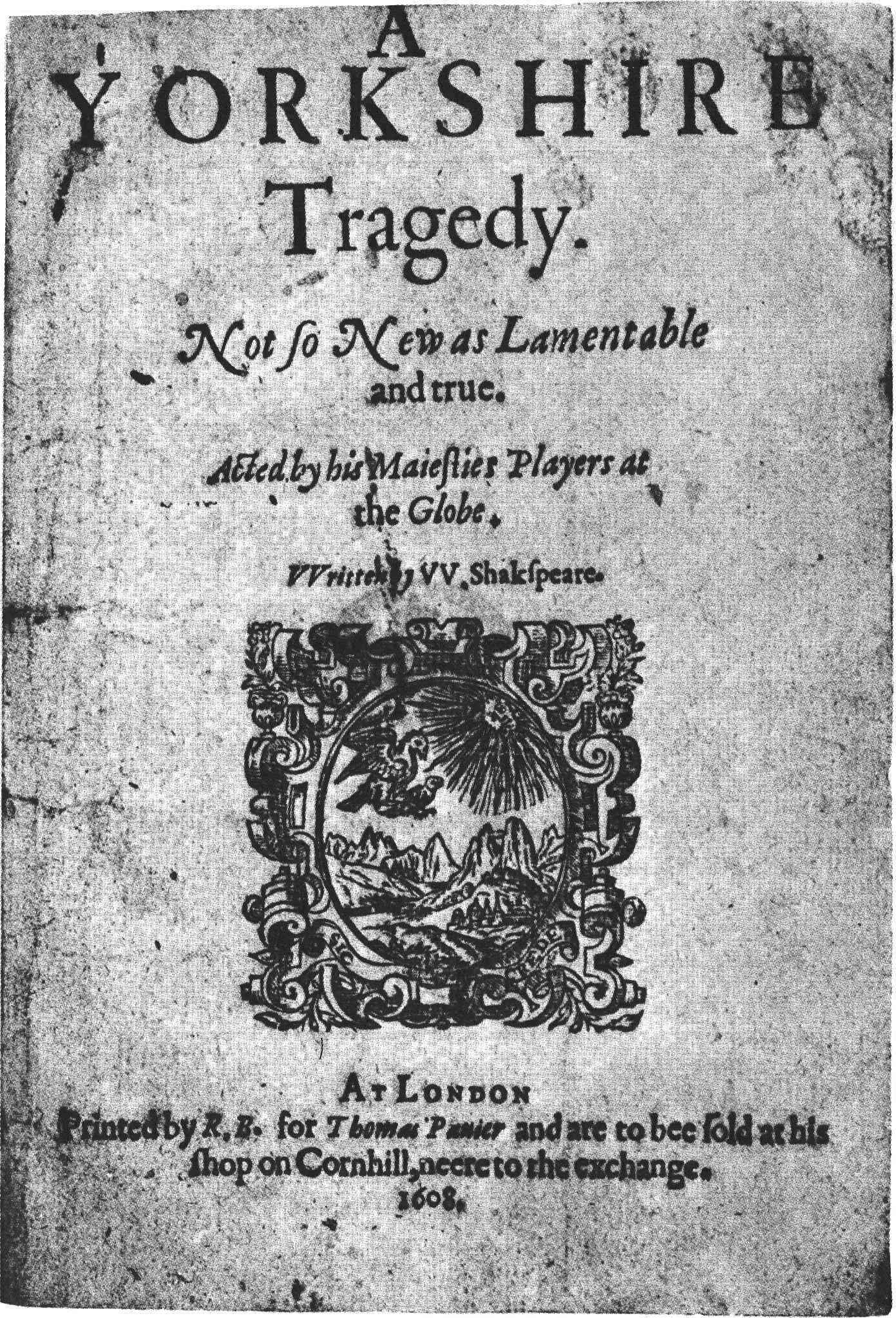 Title page of A Yorkshire Tragedy, falsely attributed to William Shakespeare